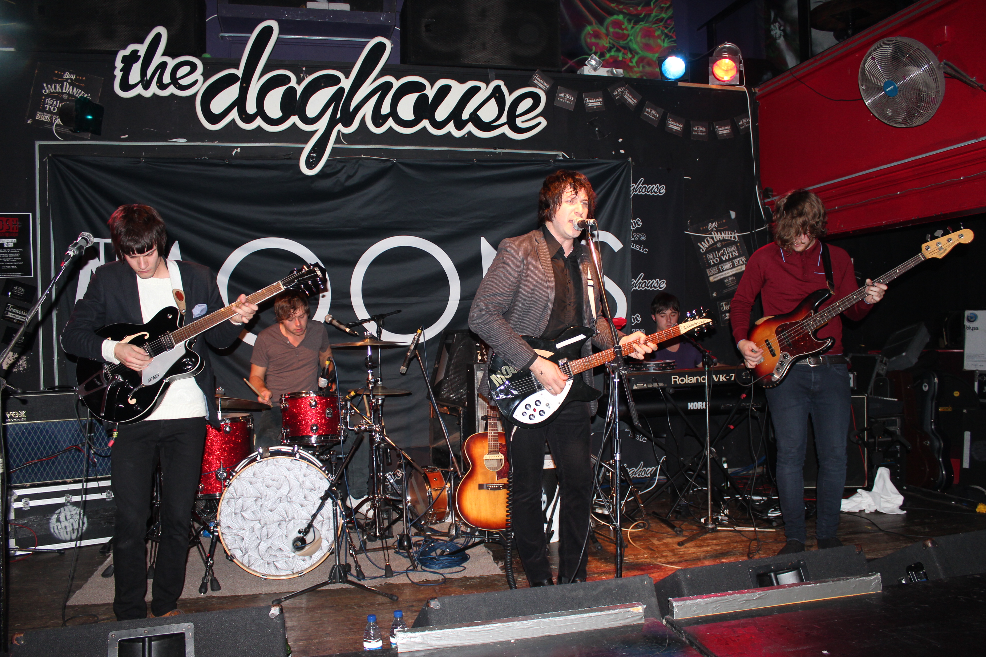 The Moons performing live at The Doghouse in Dundee, 21/9/2012.